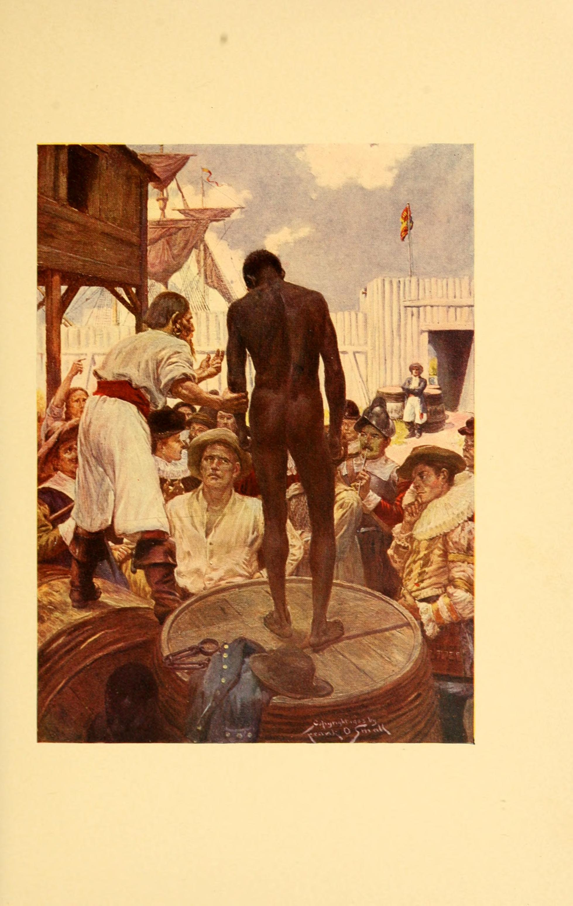 "The First Slave Market"